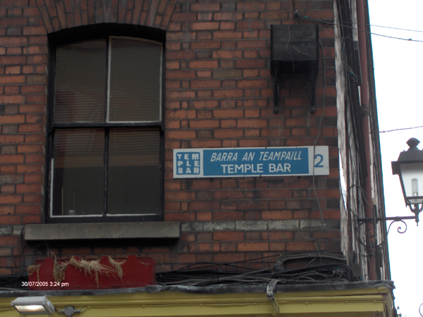 Temple Bar